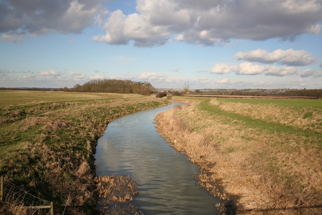 River Brant. The River Brant from Blackmoor Bridge looking north towards Lincoln